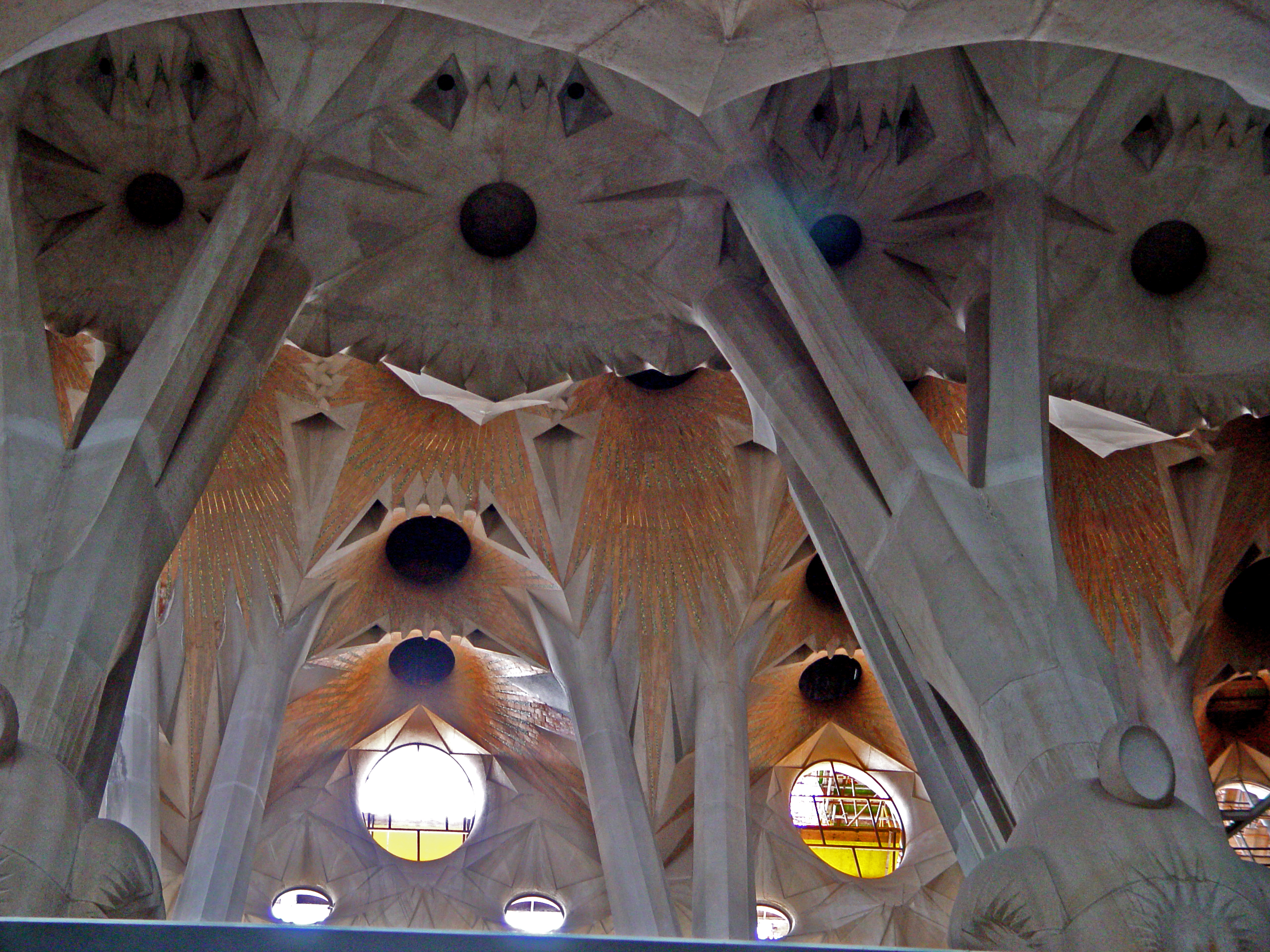 Tree-like supporting pillars of roof (Sagrada Família, Barcelona).